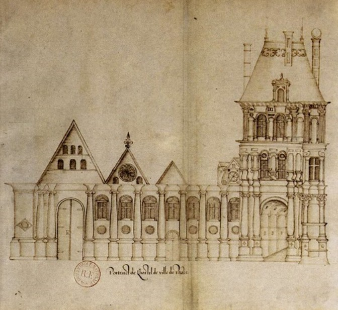 Drawing of Hôtel de Ville de Paris, by Jacques Cellier.